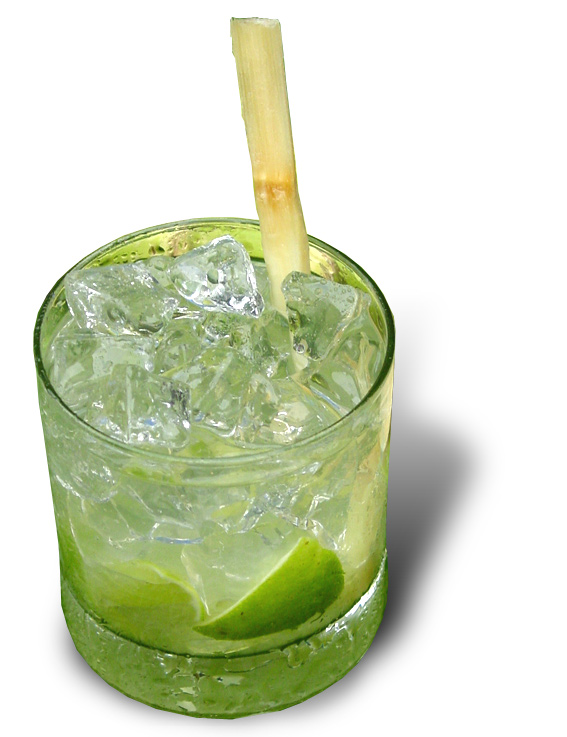 Studio photo of a caipirinha with a sugar cane swizzle stick taken December 2006 using a Cannon PowerShot S2 IS 5.0 camera. Created by David Catania